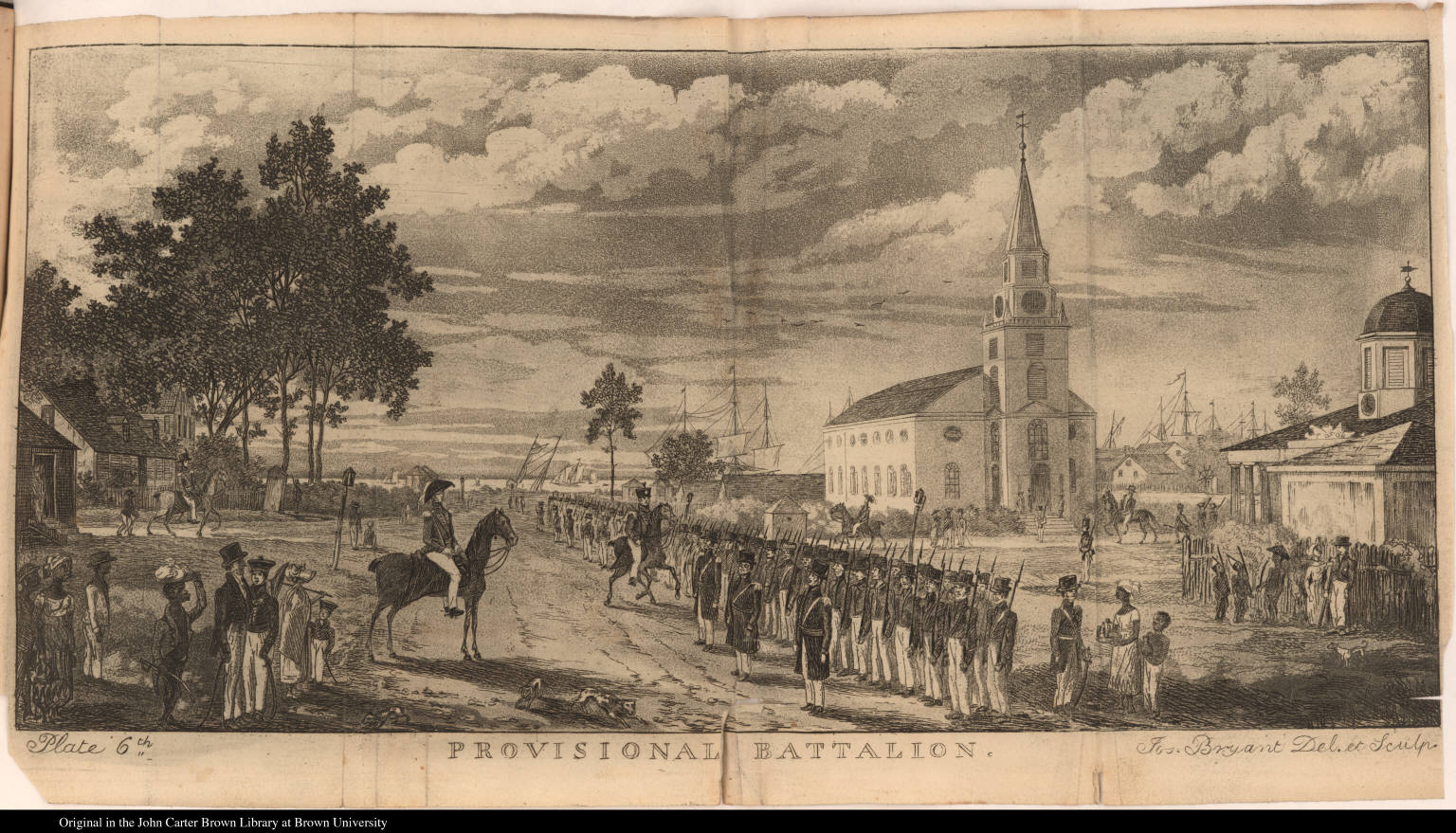 Account of an insurrection of the negro slaves in the colony of Demerara, which broke out on the 18th of August, 1823. (Provisional Battalion) Battalion lines up for review. Includes officers on horseback, blacks (slaves), ships, church, municipal building, windmill, dwellings, and dogs.